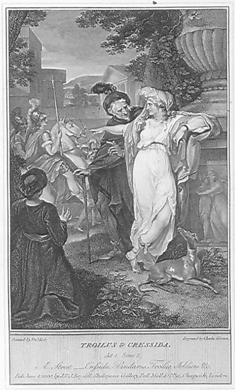 Troilus and Cressida: Act I, Scene 2: Cressida, with Pandarus, viewing the Trojan chiefs.